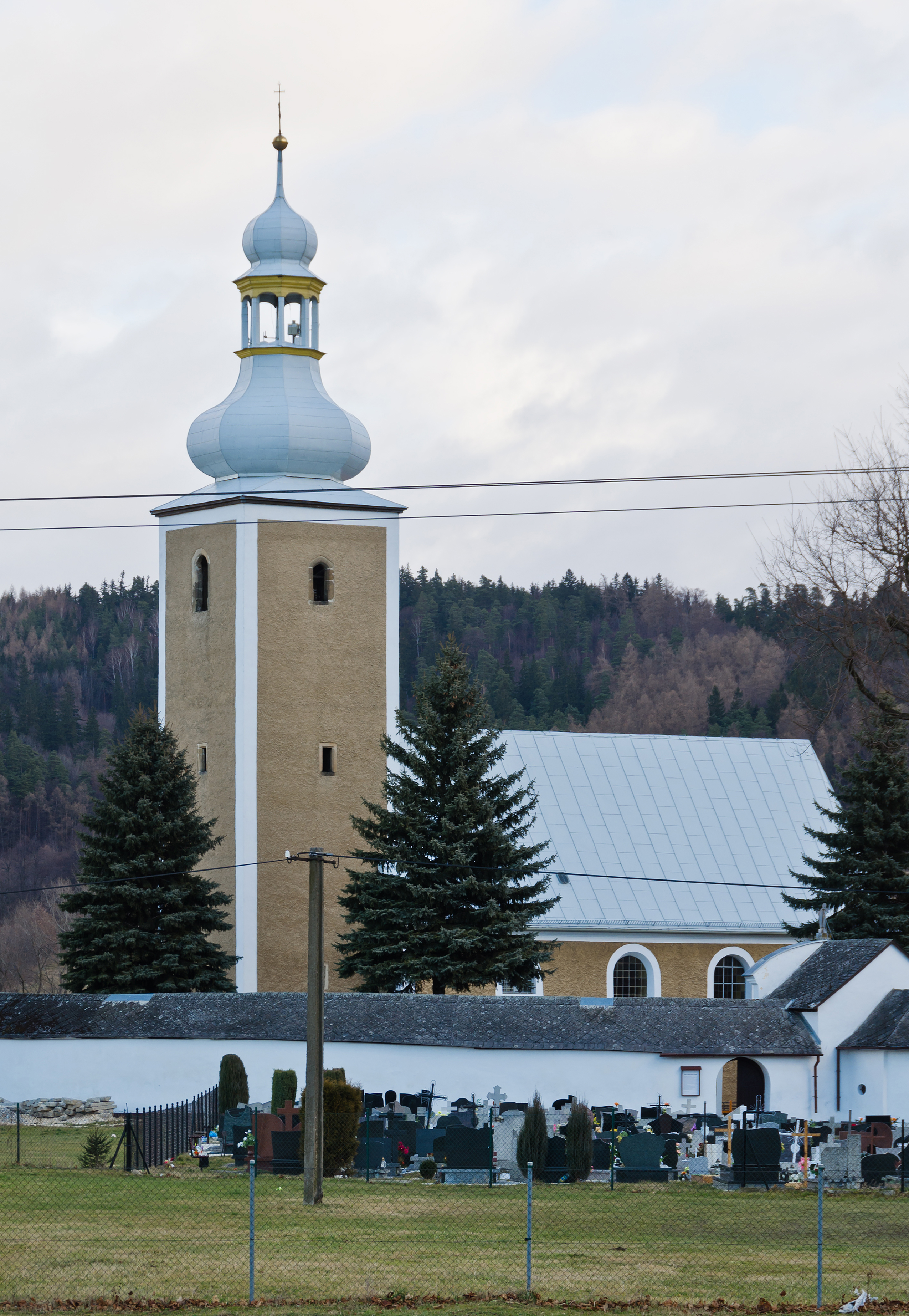 Church of Saint Martin in Żelazno